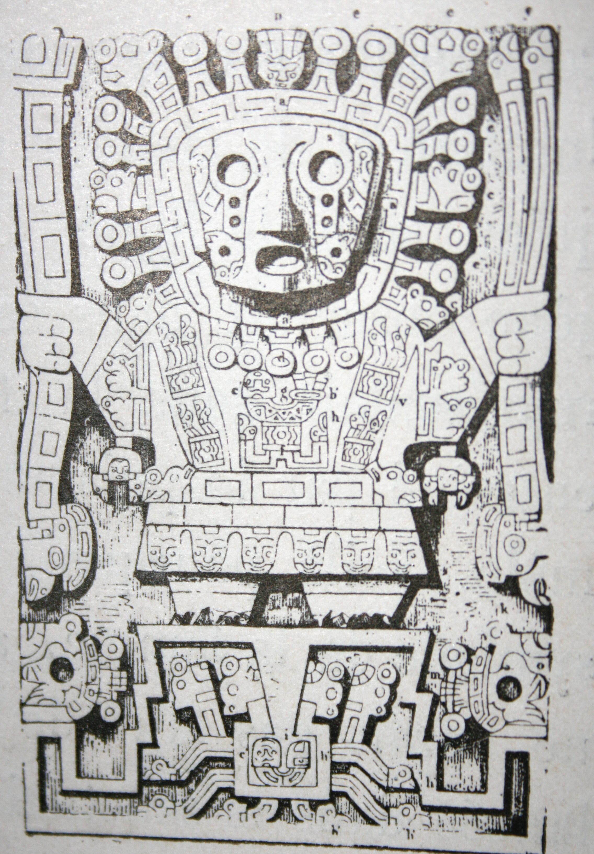 Sun god, central low relief of the monolithic Gate of the sun, Tiwanaku, drawing by Charles Wiener